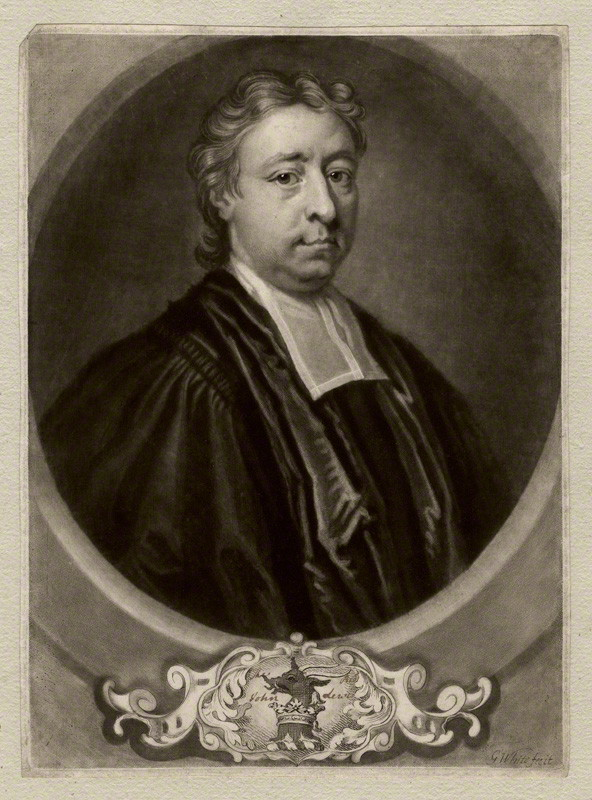 Portrait of John Lewis (1675–1747), English clergyman and antiquarian.